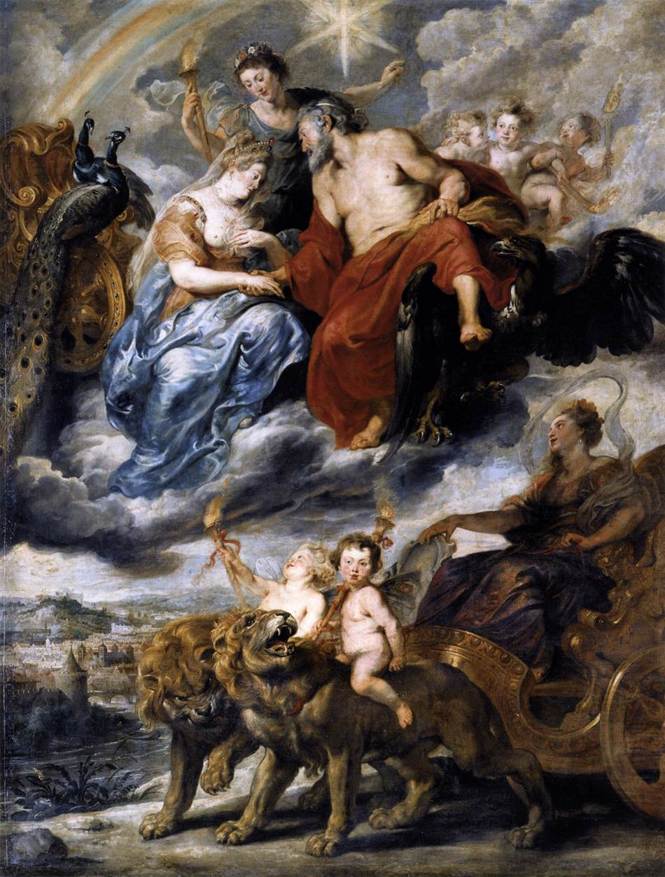 Part of a series of 24 paintings illustrating the life of Marie de' Medici.